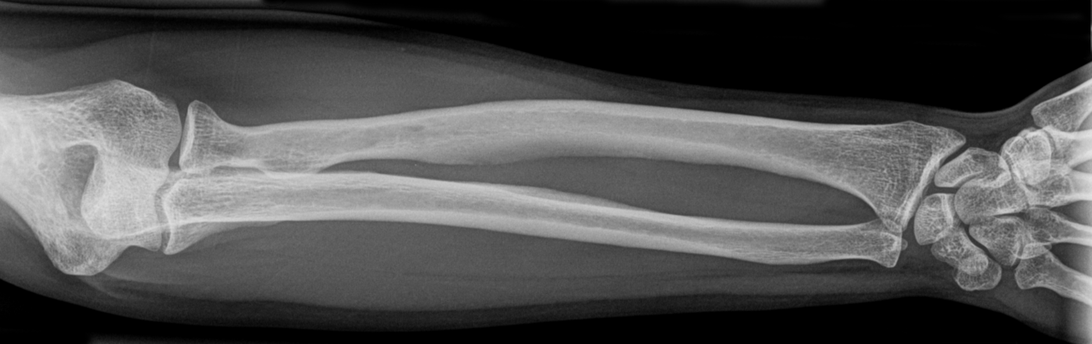 Bones of forearm: Radius and Ulna.